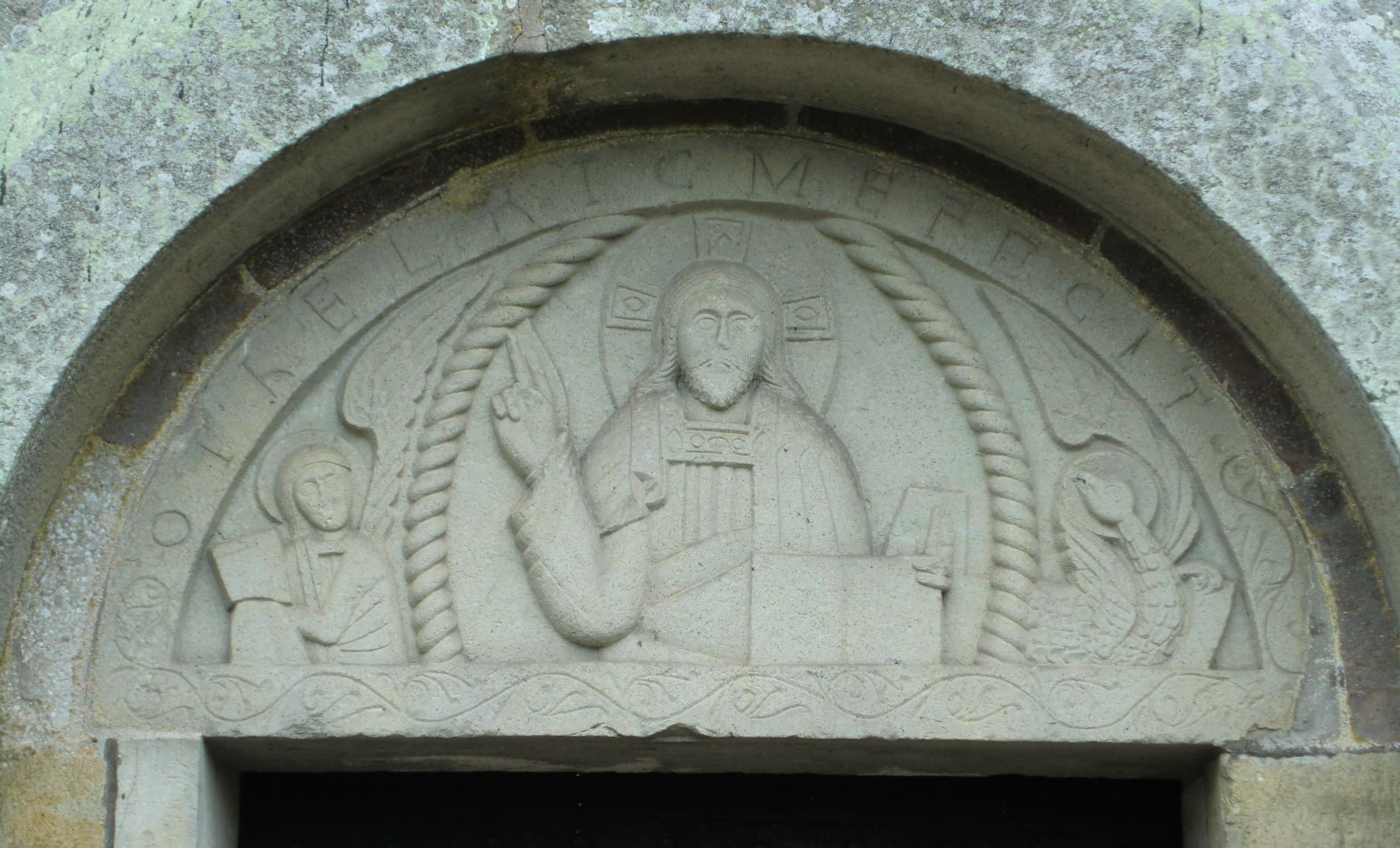 Othelric me fecit (Othelric made me). The german 12th-century stonecarvers signed relief at Skälvum parish church, Västergötland, Sweden